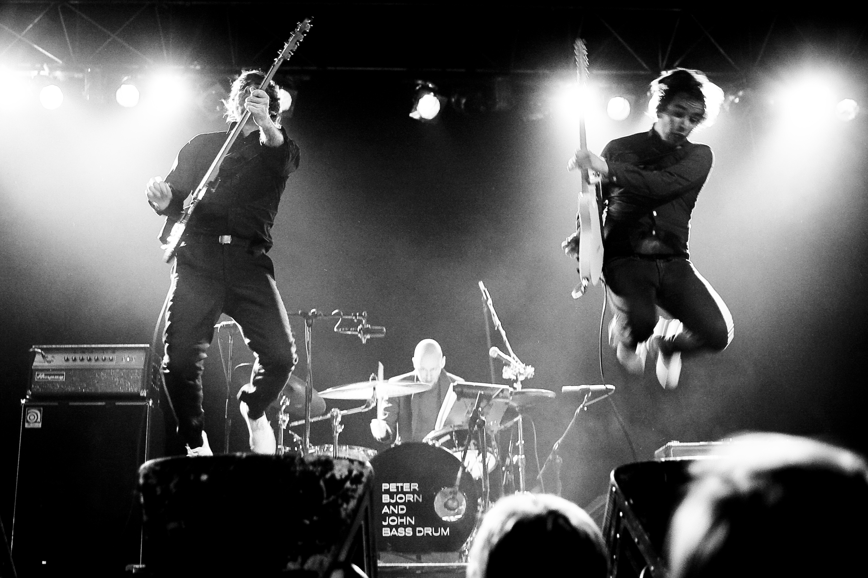 Peter Bjorn and John at the Madrid Theater in Kansas City, MO